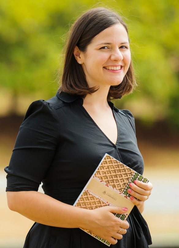 SFU Banting Research Fellow Claire Battershill, Department of English